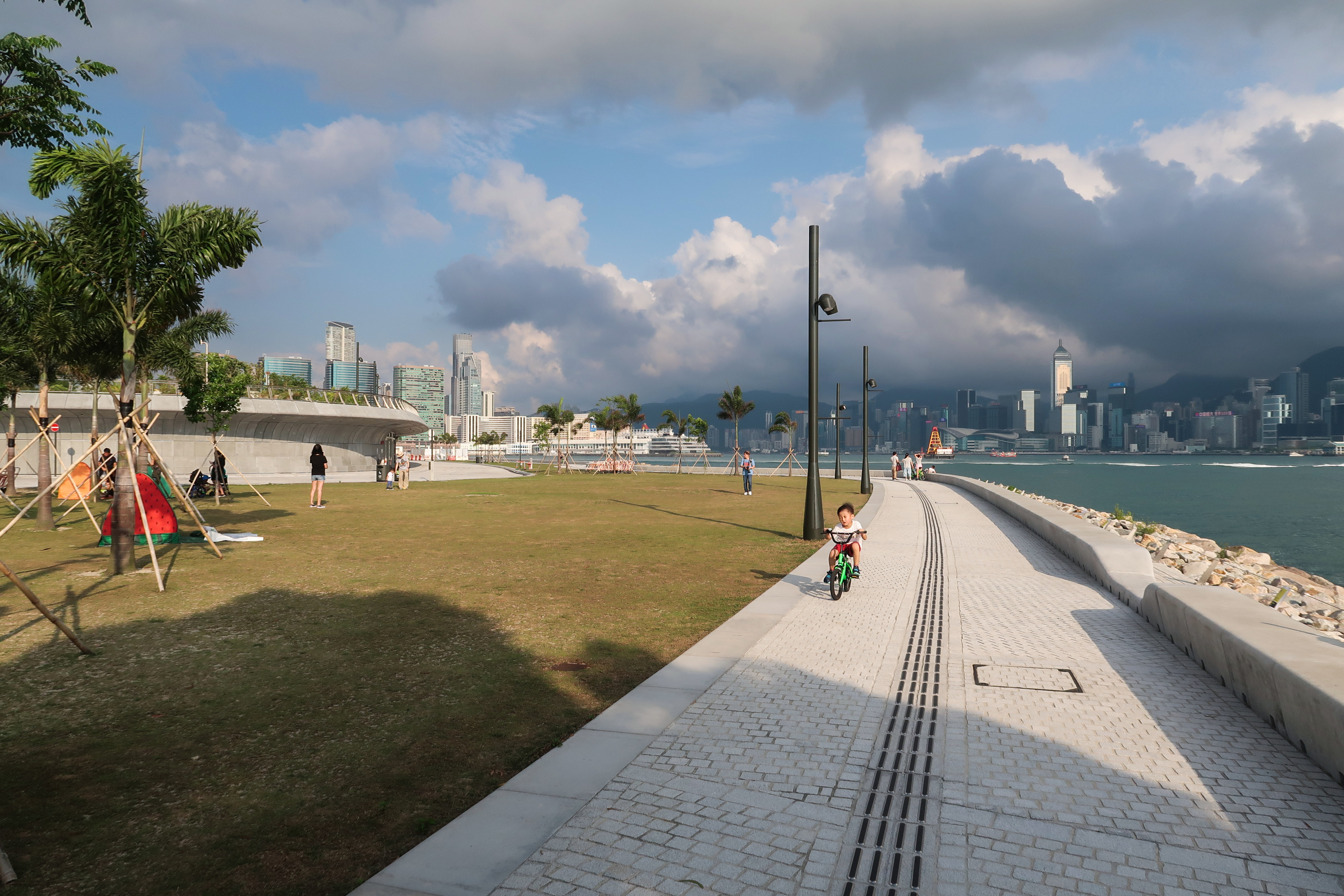 WKCD Art Park Waterfront